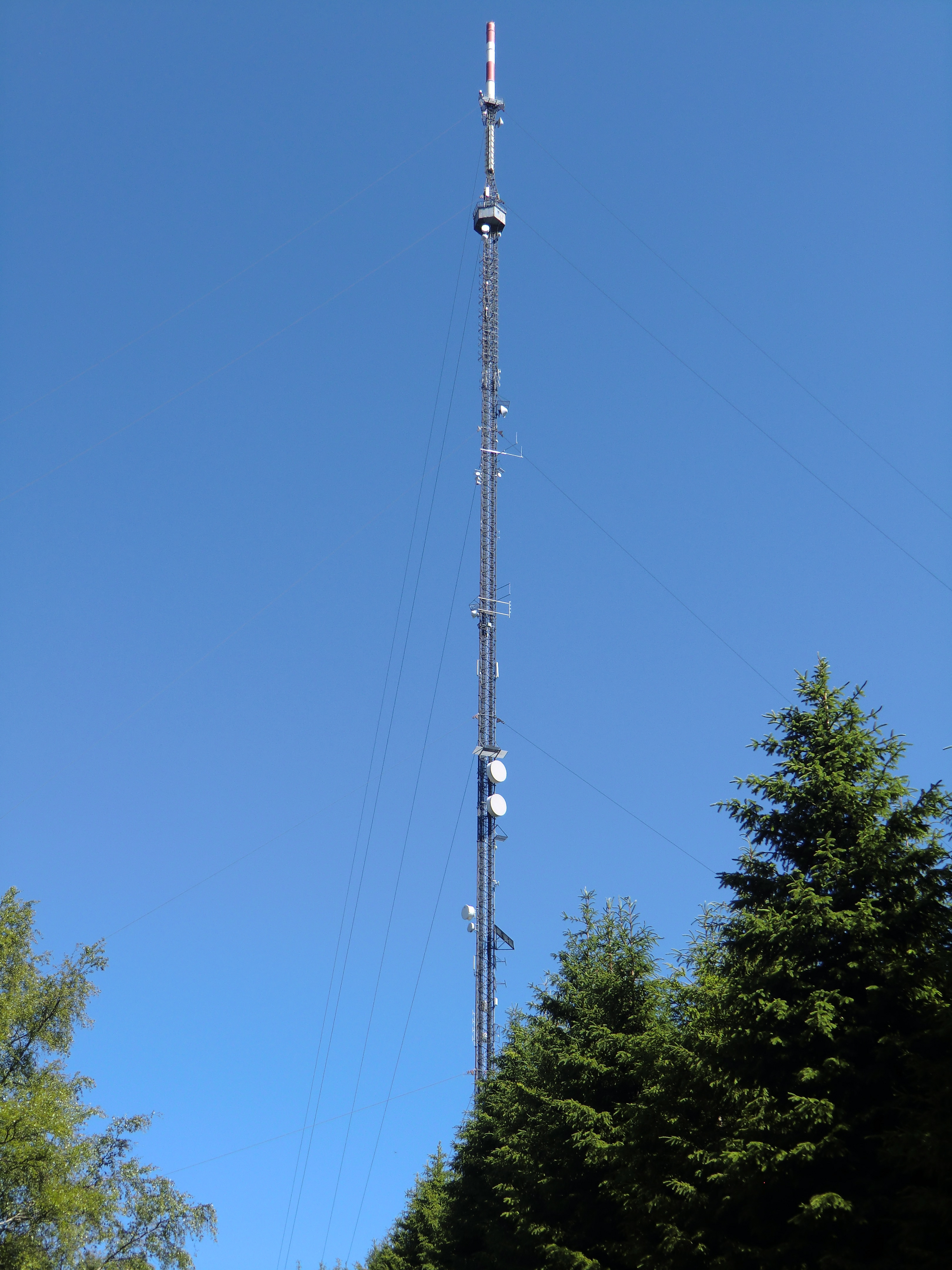 Blåbärskullen transmitter in Värmland, Sweden